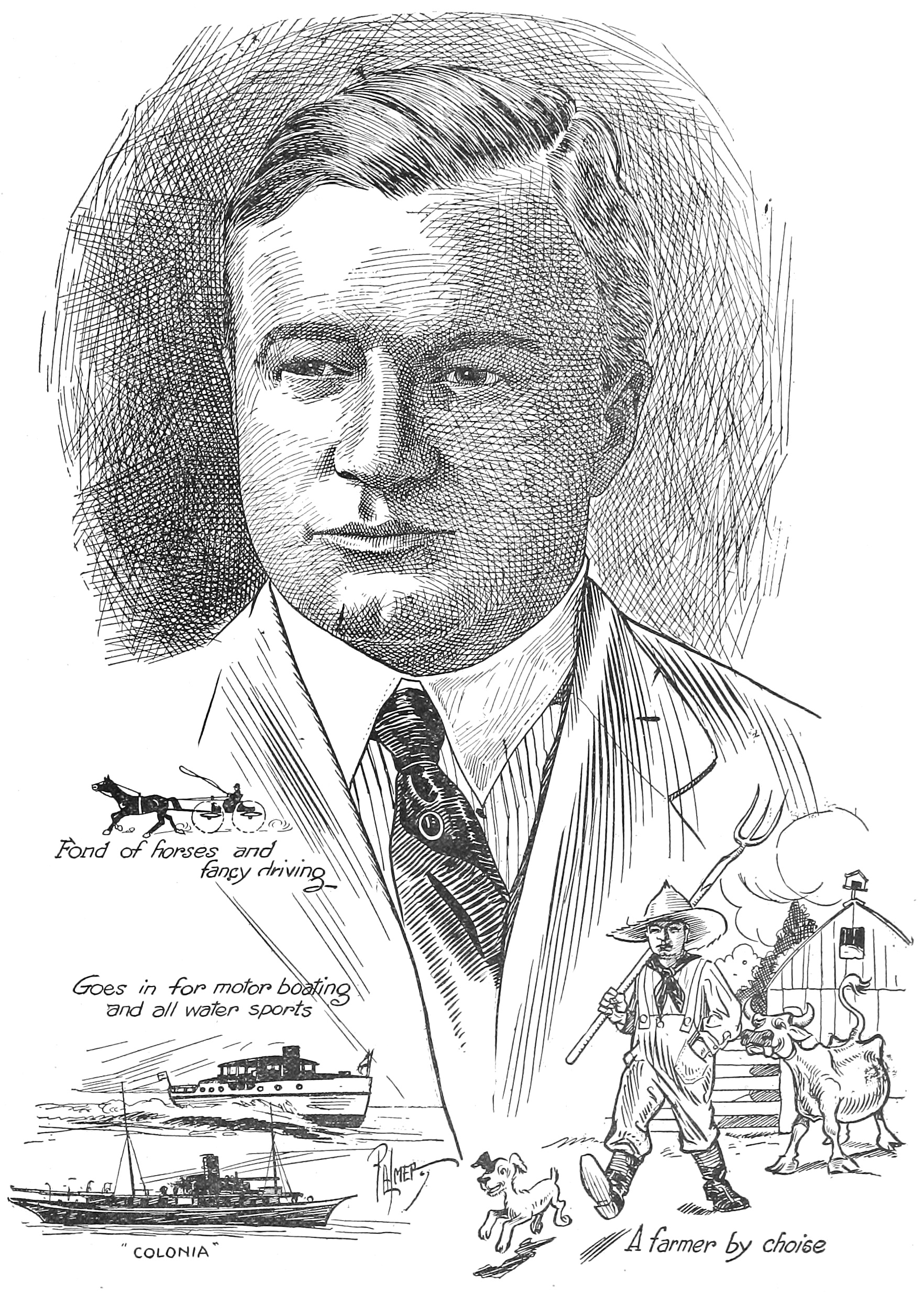 Portrait of Albert E. Smith by Harry S. Palmer, with illustrations of some of his favorite hobbies